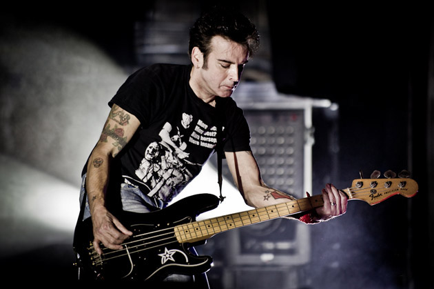 Simon Gallup performing with The Cure in 2012.